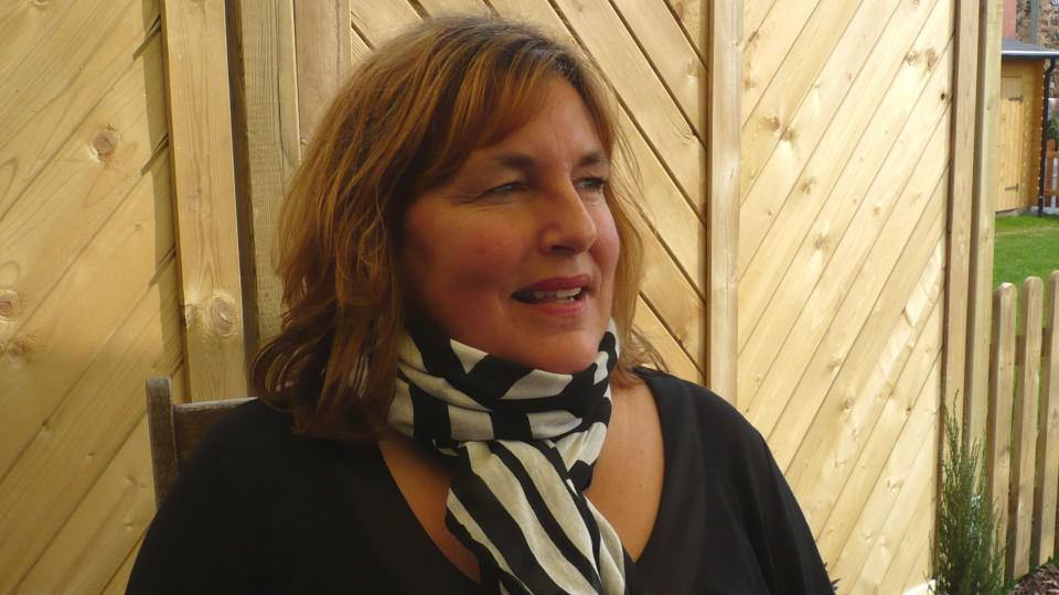 Nina de Vries: Portrait of the Dutch sex helper